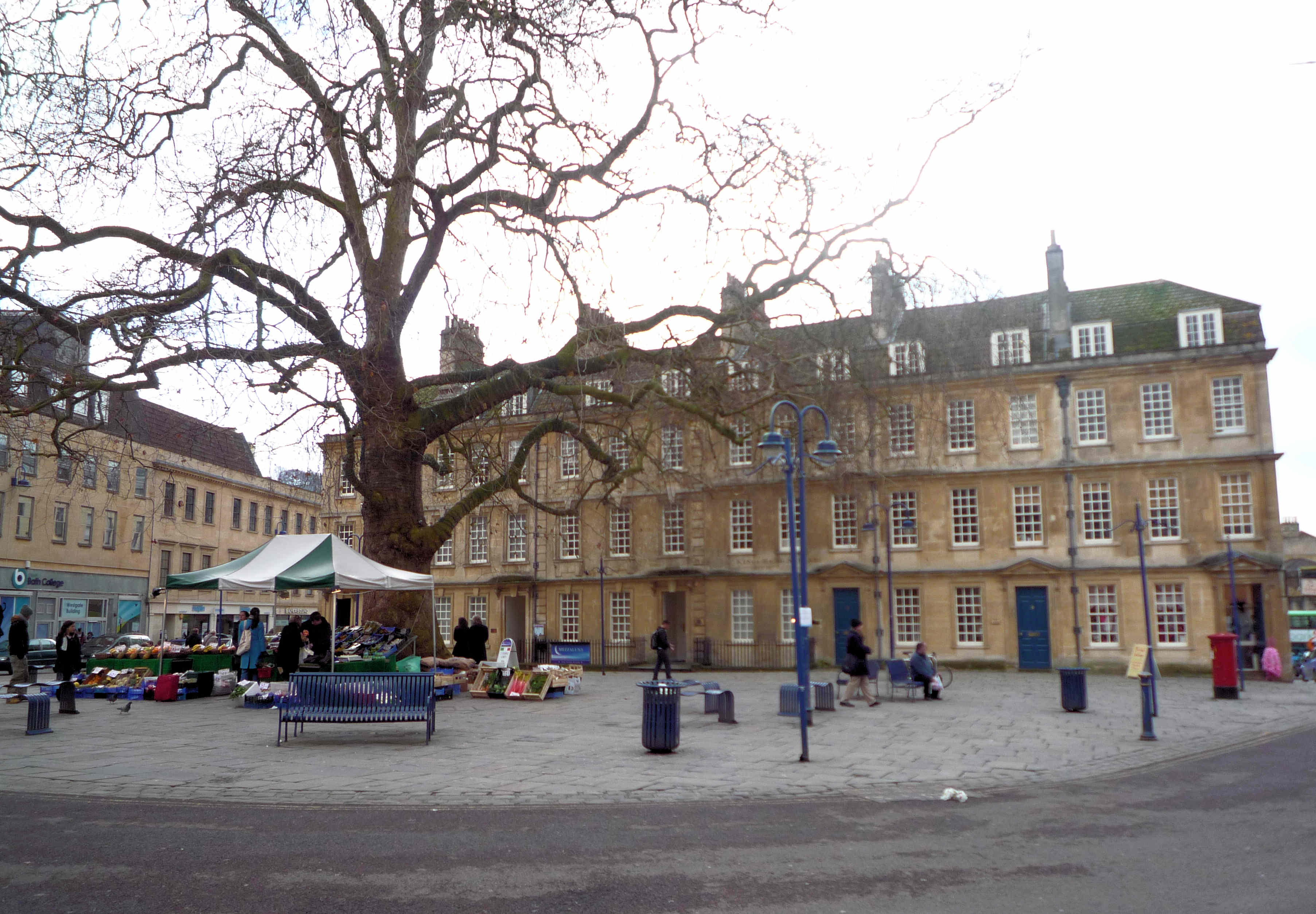 Kingsmead Square situated near the centre of Bath.